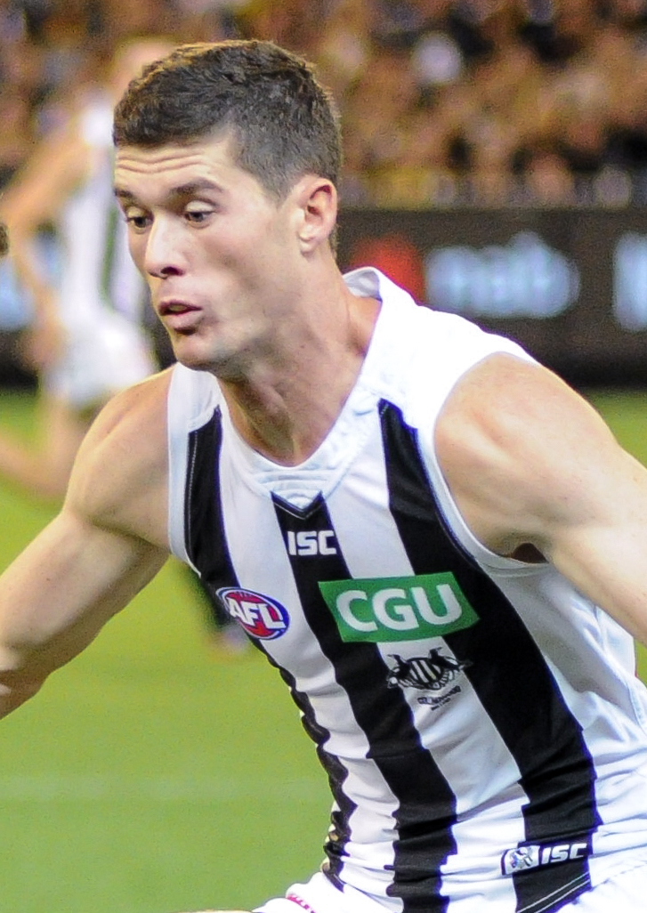 Henry Schade during the AFL round two match between Richmond and Collingwood on 30 March 2017 at the Melbourne Cricket Ground in Melbourne, Victoria.